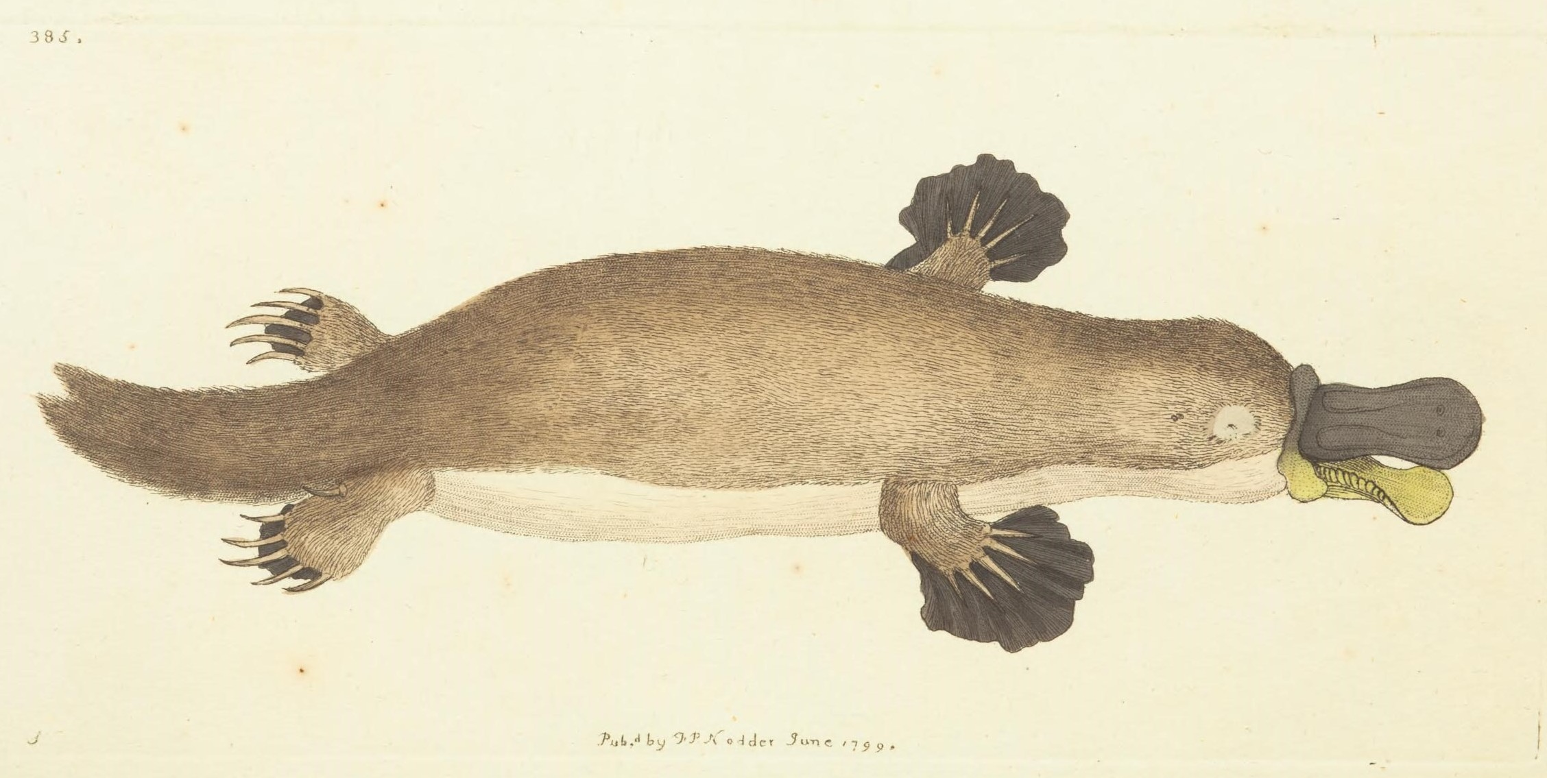 This is the first published description of the platypus. George Shaw, who produced the first description of the animal in the Naturalist's Miscellany in 1799.